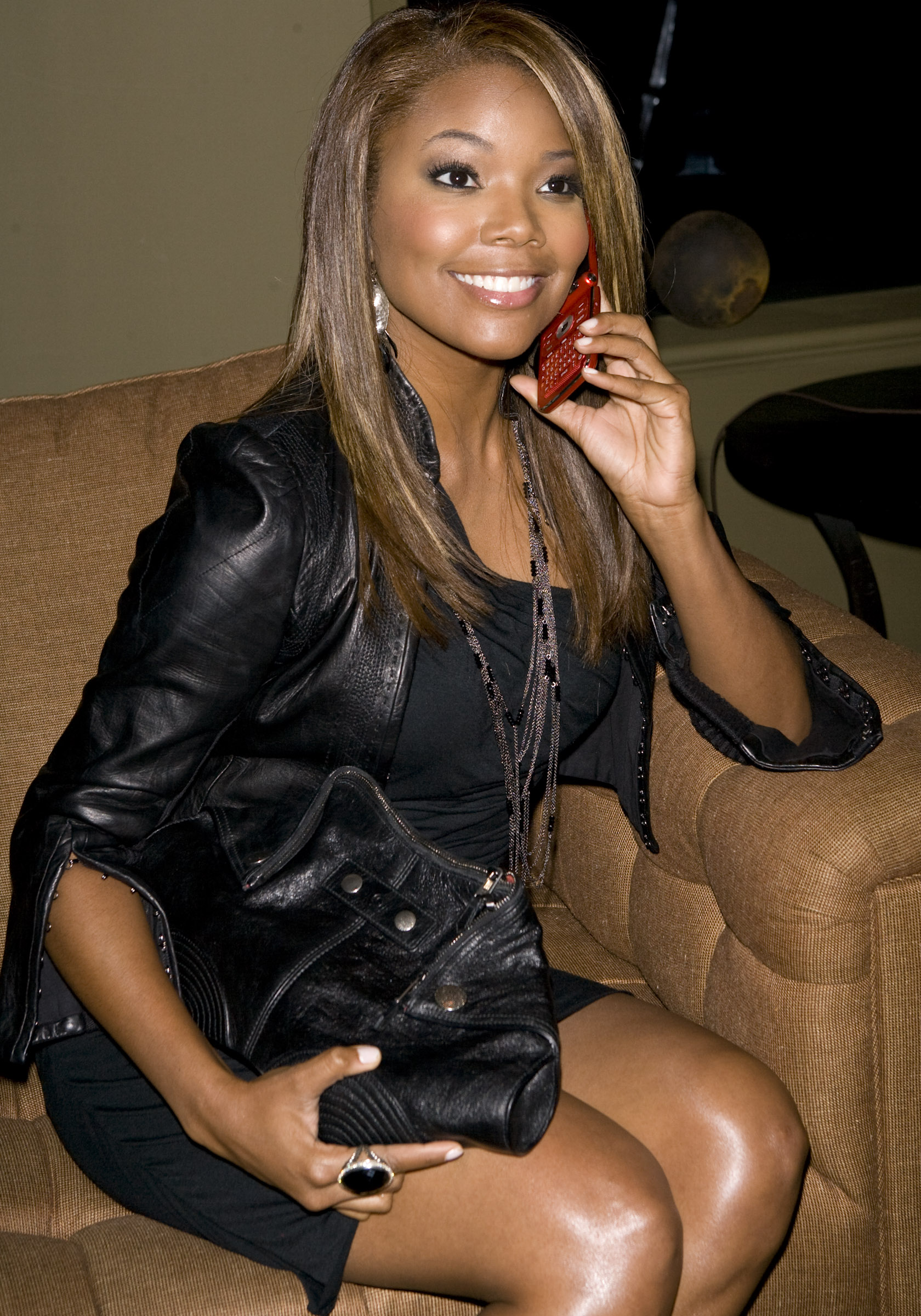 LG Mobile Phone Touch Event. Actress Gabrielle Union.